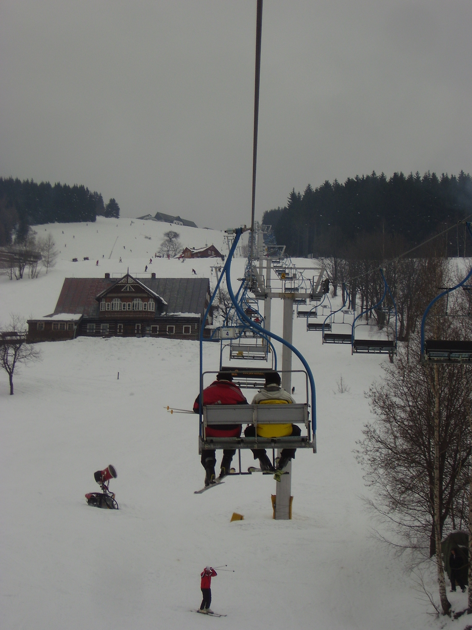 Chairlift Velká Úpa – Portášovy boudy, Velká Úpa, Kronoše